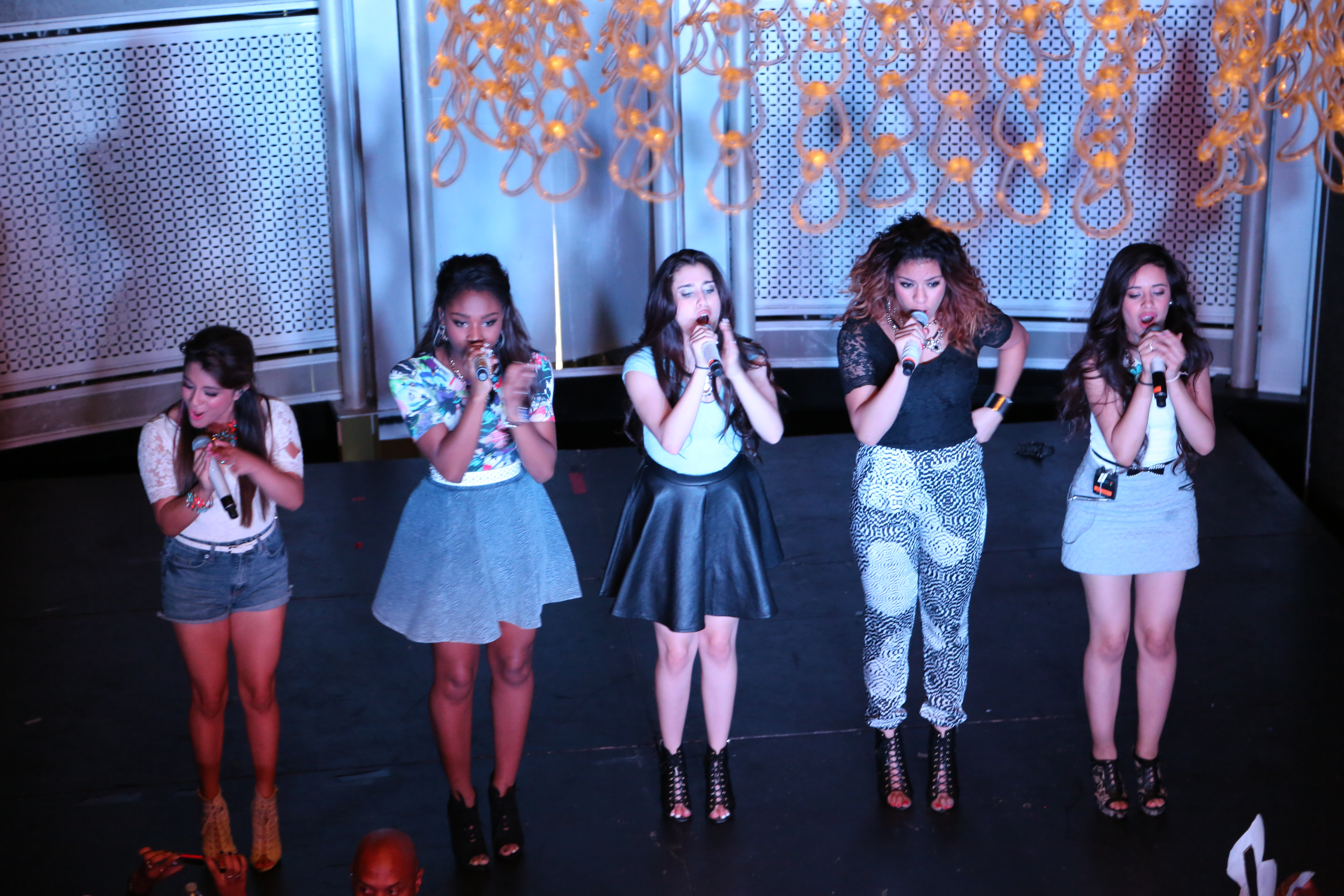 0O3A0386 Fifth Harmony at Hollywood & Highland Center